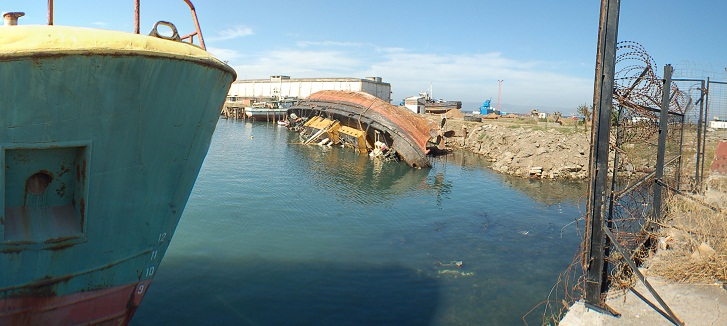 The ship that is overturned, is ”The Powerful” (Formerly “RAM Poderoso”), built in 1911 (contemporary with the Titanic), historical tug that was declared a National Monument in 1980. The Powerful is one of the tugs with the largest number of years on active duty, and was about to become a floating museum before 27F.